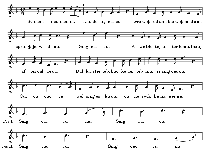 Transcribed from photo of original MS into modern music staff notation. Lyrics and music public domain; engraving by me (with Lilypond).